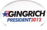 Newt Gingrich presidential campaign, 2012